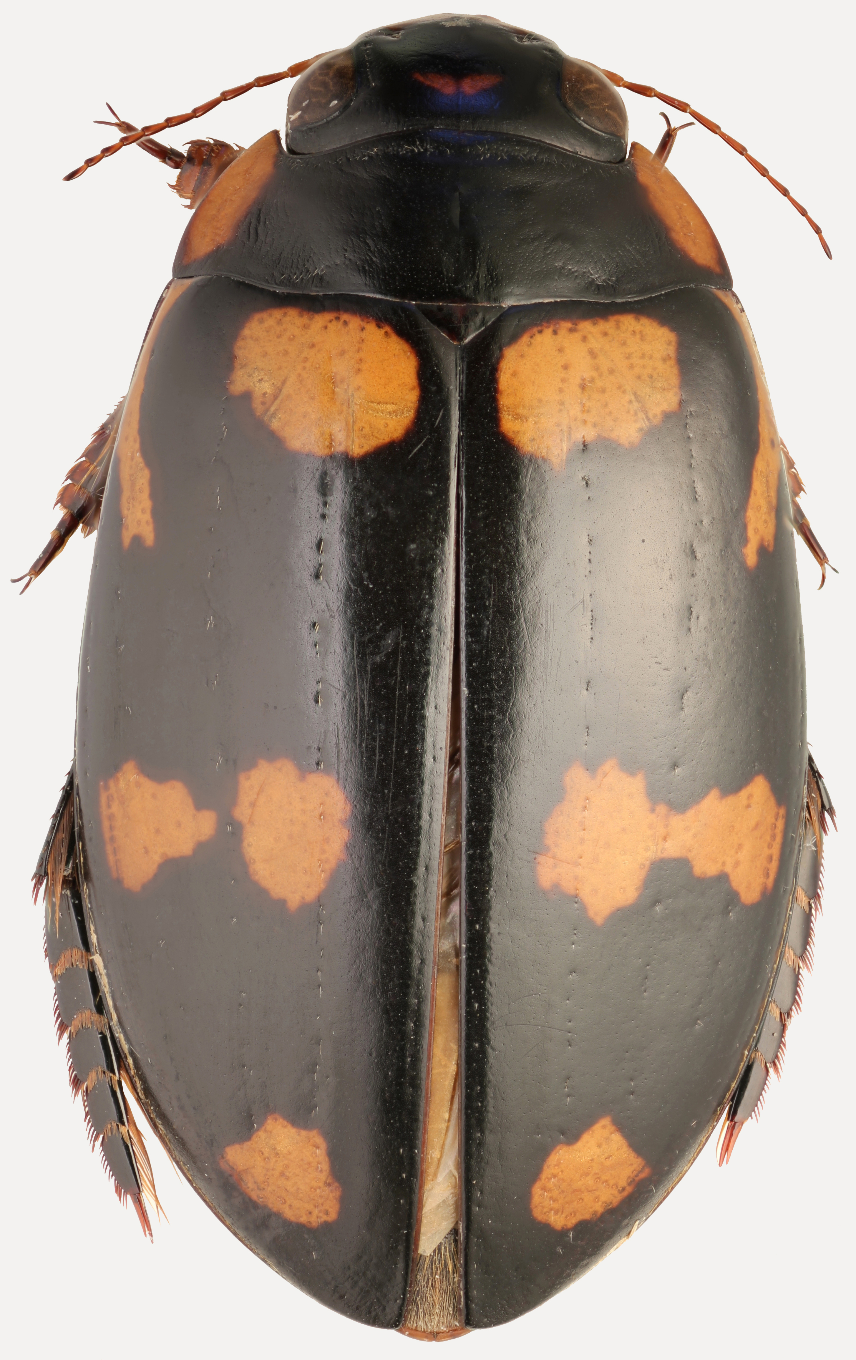 Dorsal habitus of Prodaticus pictus from the United Arab Emirates